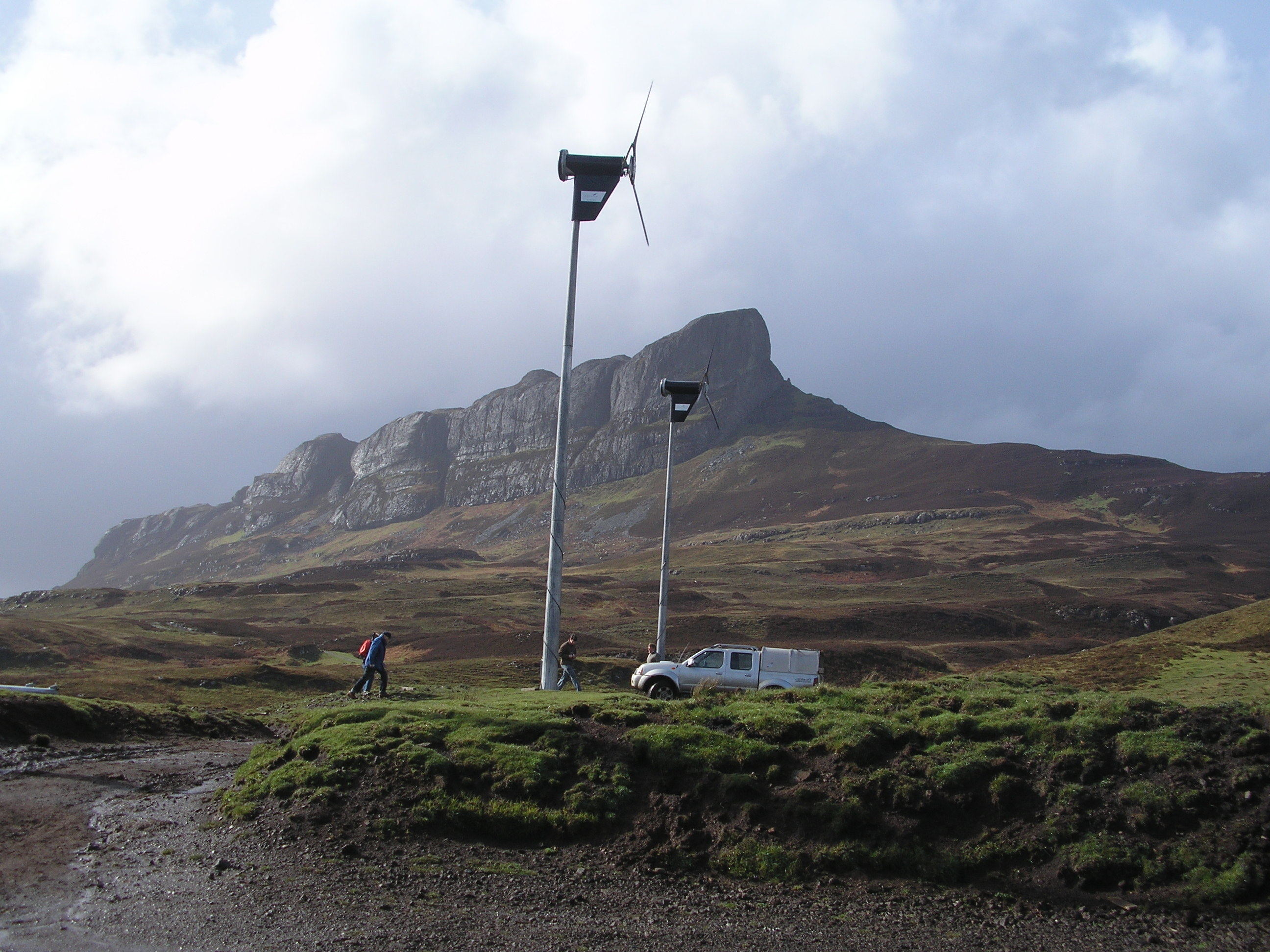 Wind turbines under An Sgurr, Eigg, in the Small Isles, Scotland